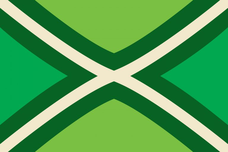 Unofficial flag of the region Achterhoek, winner of a contest from Stichting PakAn, part of Zwarte Cross Gelderland, The Netherlands.